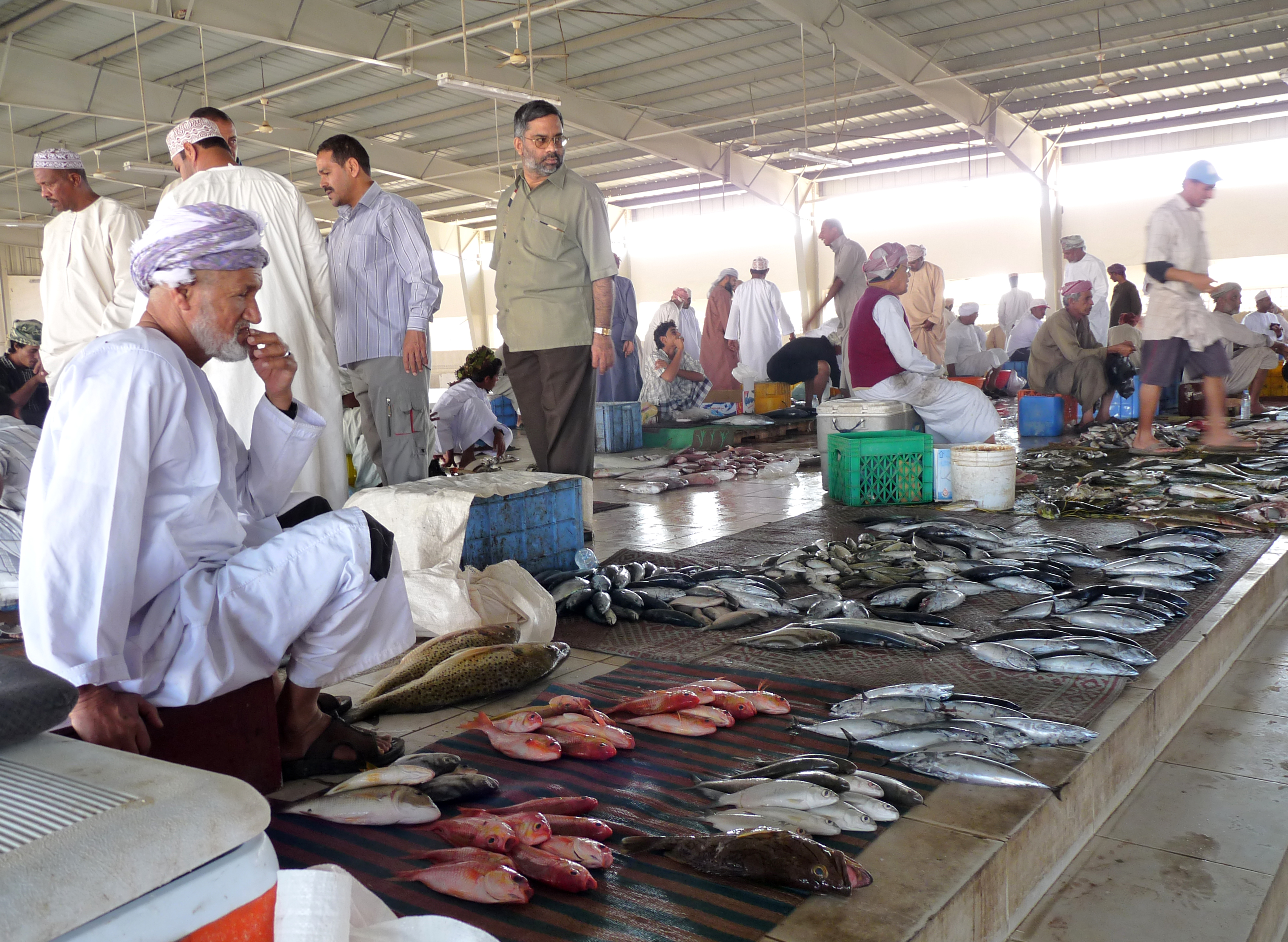 Sur fish market (Oman)